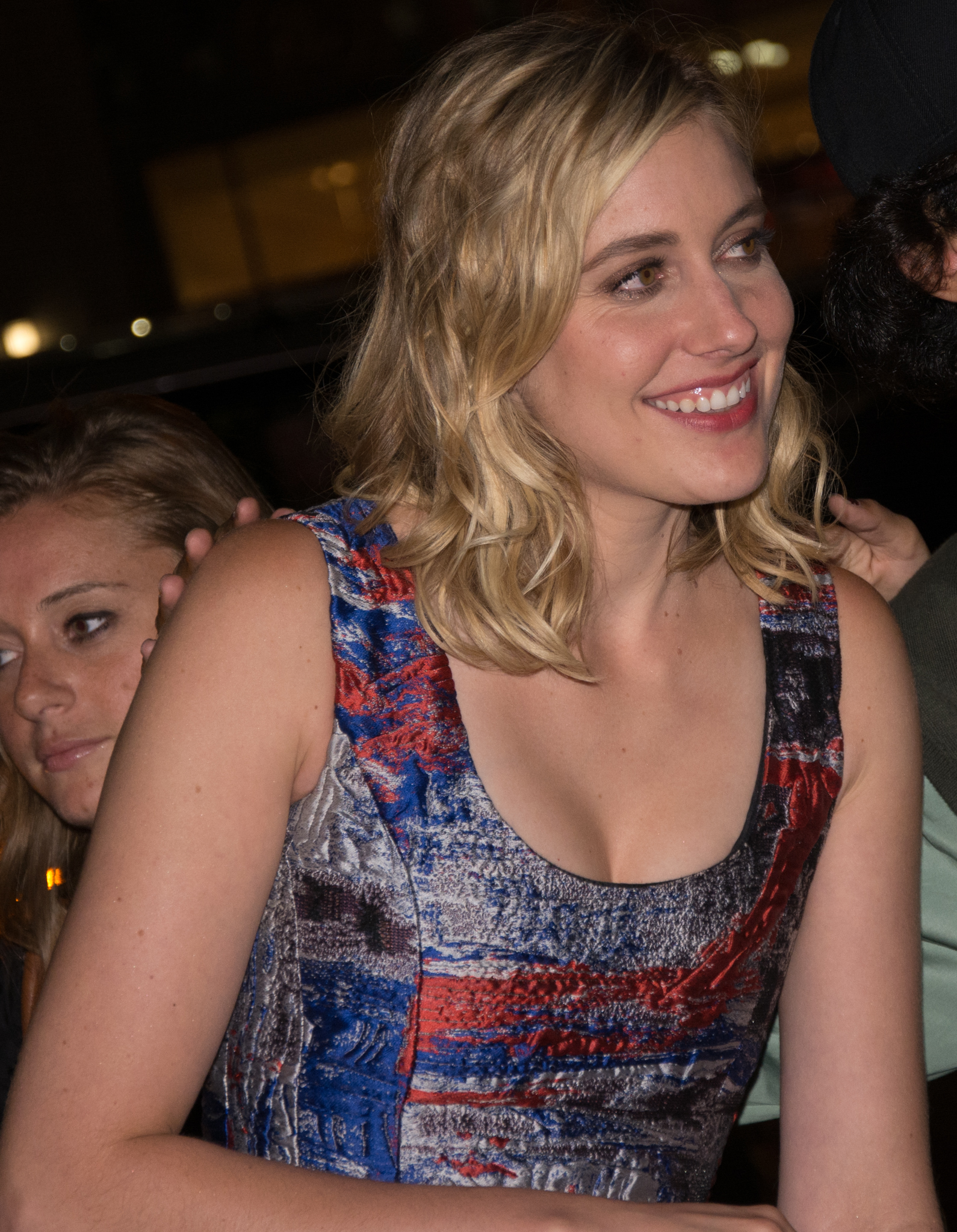 American actress, writer, and director arriving for the Hollywood Foreign Press Association & InStyle's 2014 TIFF Celebration